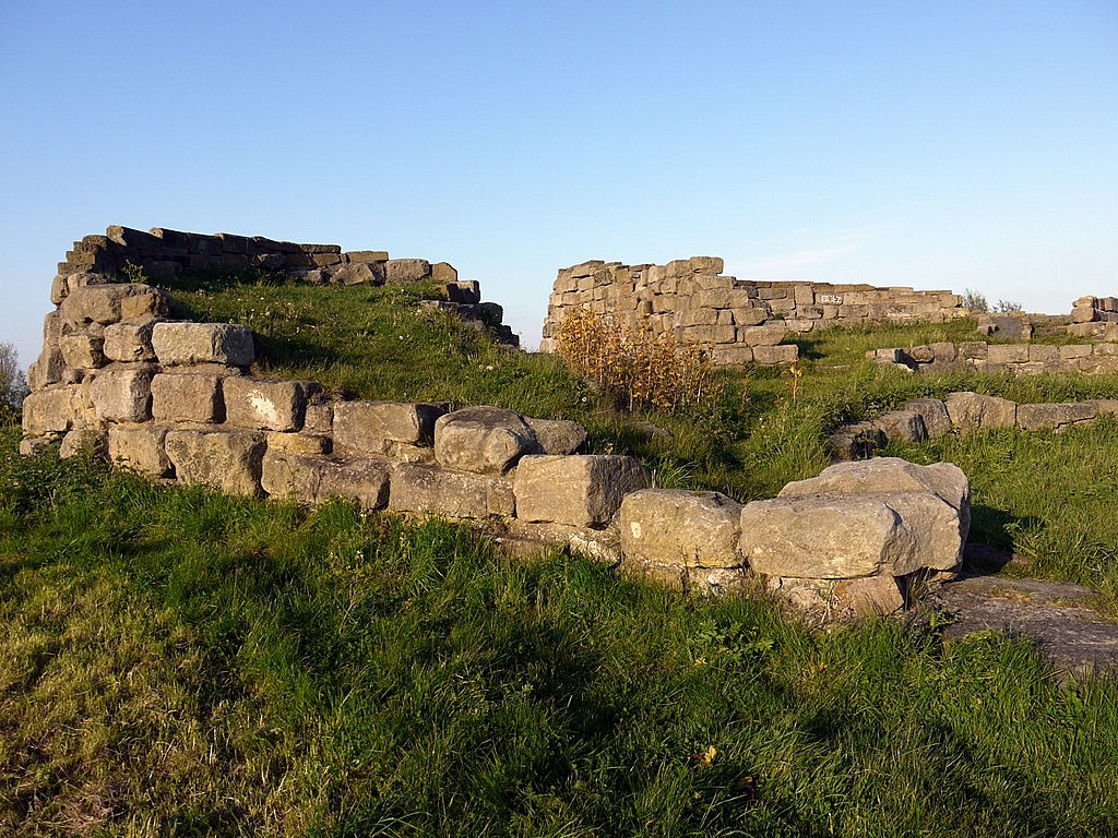 This 'fortress' on Windy Nook Pit Hill is, in fact, a piece of modern sculpture by Richard Cole installed in 1986